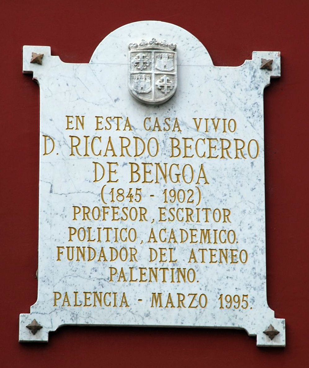 Plaque to D. Ricardo Becerro de Bengoa in Palencia (Castile and León).